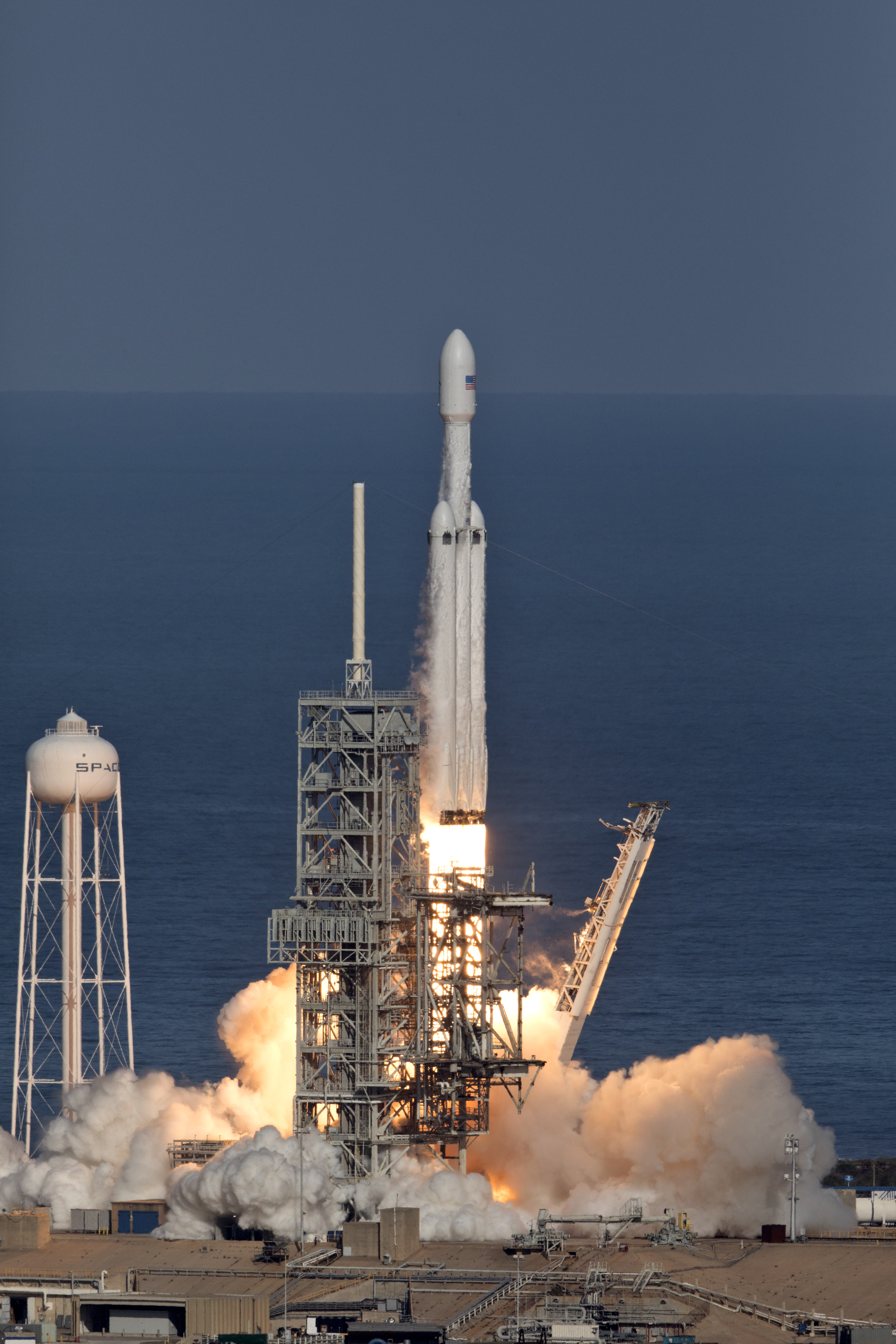 A SpaceX Falcon Heavy rocket begins its demonstration flight with liftoff at 3:45 p.m. EST from from Launch Complex 39A at NASA's Kennedy Space Center in Florida. This is a significant milestone for the world's premier multi-user spaceport. In 2014, NASA signed a property agreement with SpaceX for the use and operation of the center's pad 39A, where the company has launched Falcon 9 rockets and prepared for the first Falcon Heavy. NASA also has Space Act Agreements in place with partners, such as SpaceX, to provide services needed to process and launch rockets and spacecraft.